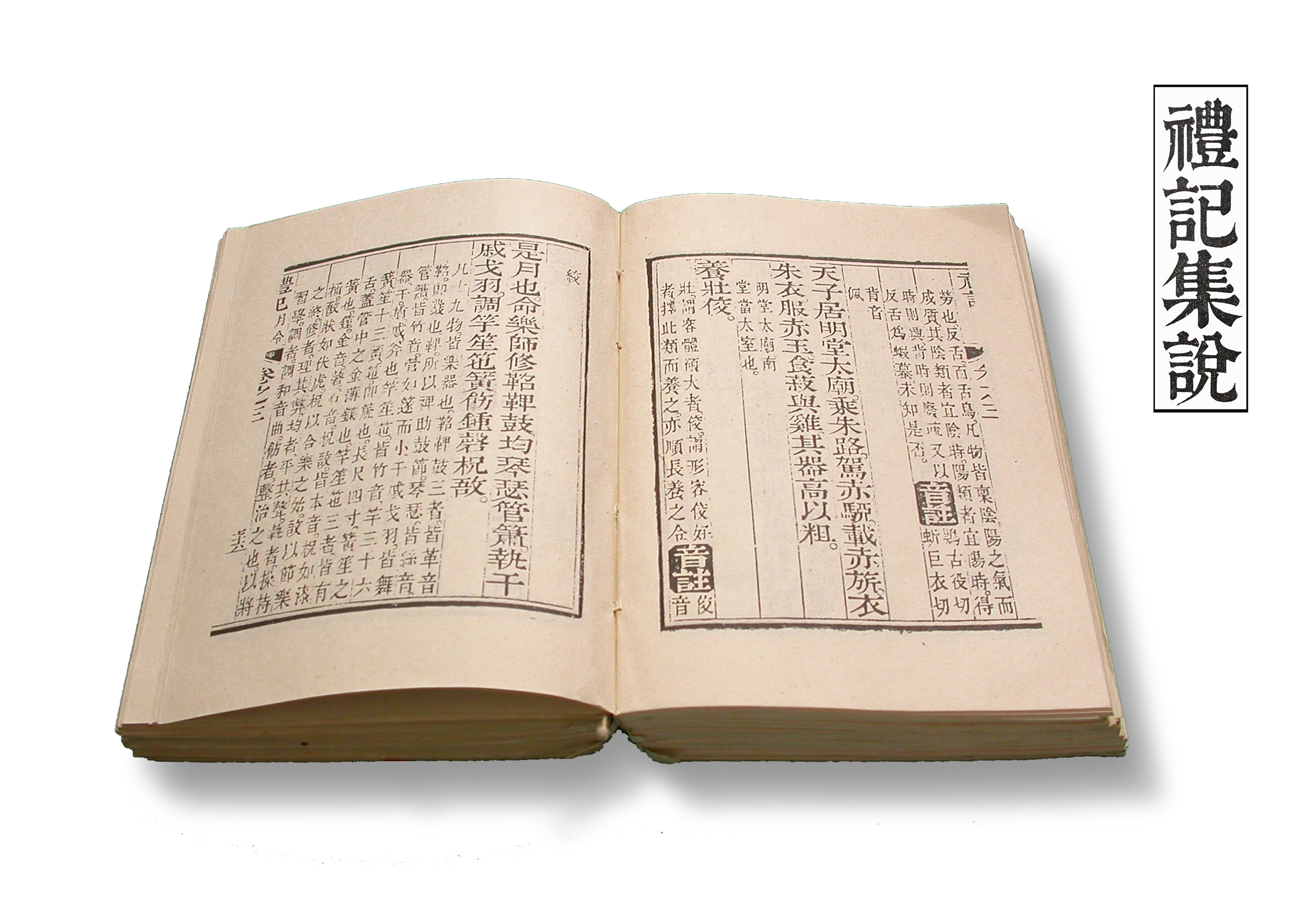 The Classic of Rites was one of the Five Classics of Confucianism; it described social forms, ancient rites, and court ceremonies.